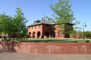 Fayetteville Area Transportation Museum, in Fayetteville, North Carolina. This building was originally the Cape Fear and Yadkin Valley Railway Passenger Depot, and is also known as "the slave market" as it was where slaves were sold into slavery.